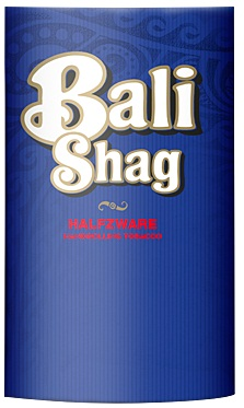 bali shag halfzware